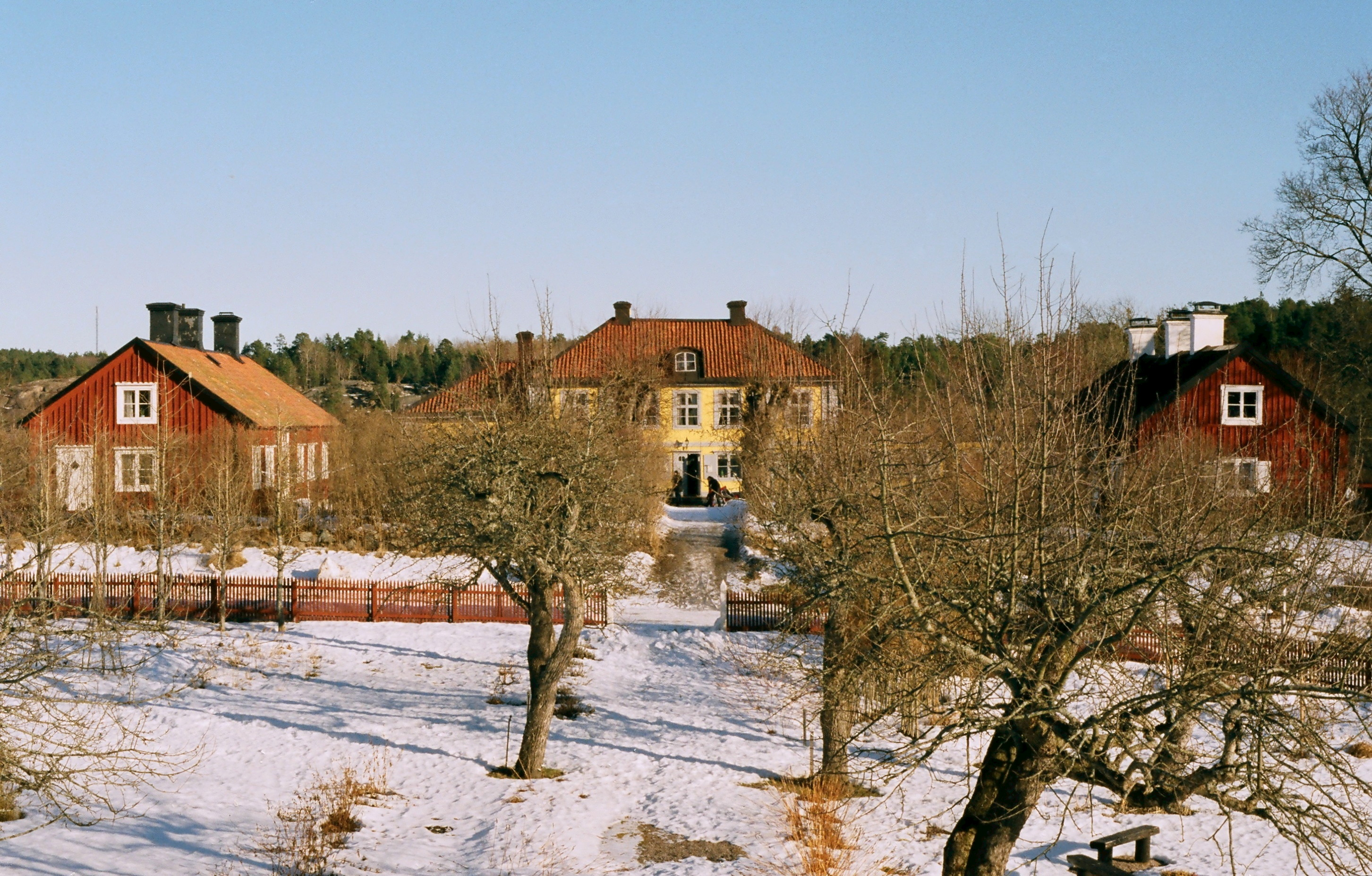 Stora Nyckelviken